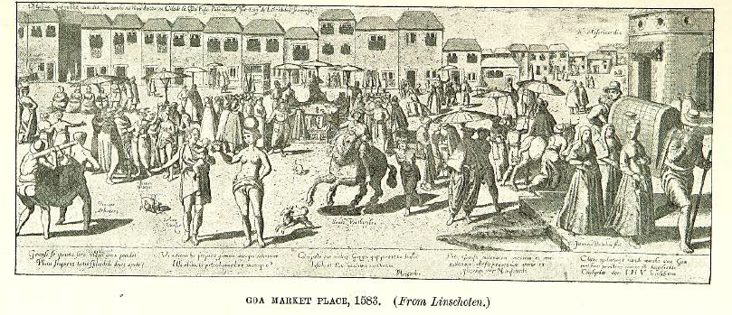 Goa Market Place in 1583